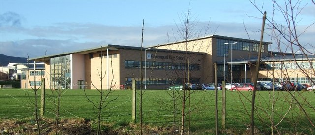 Gracemount High School The new high school is to the south of the demolished old building and first opened pupils in August 2003.